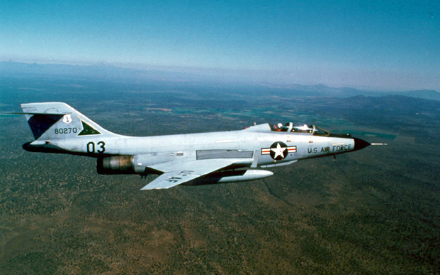 A U.S. Air Force McDonnell F-101B-105-MC Voodoo fighter (s/n 58-0270) from the 123rd Fighter-Interceptor Squadron Redhawks, 142nd Fighter Interceptor Group, Oregon Air National Guard.